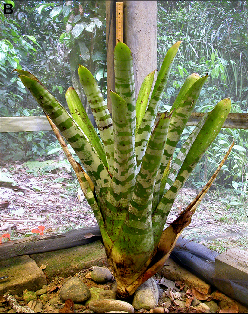 Aechmea zebrina ex situ. Figure 1B in McCracken, S. F., and M. R. J. Forstner. 2014. Oil road effects on the anuran community of a high canopy tank bromeliad (Aechmea zebrina) in the upper Amazon Basin, Ecuador. PLoS ONE 9:e85470.